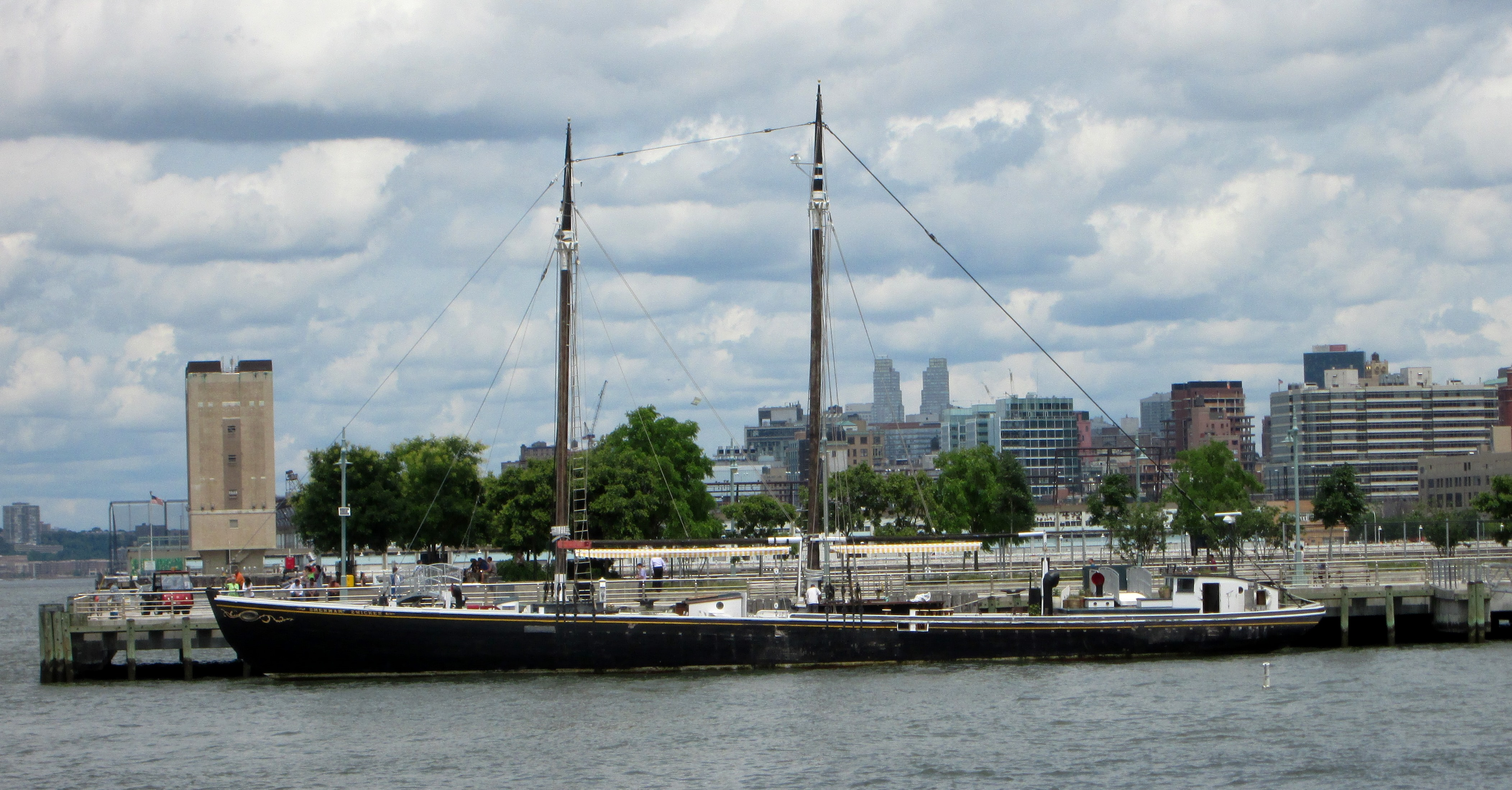 A boat, the Sherman Zwicker, is tied up alongside Pier 25 on the Hudson River in the Tribeca neighborhood of Manhattan, New York City, as seen from the North Esplanade of Battery Park City. In the background is a ventilation building for the Holland Tunnel.